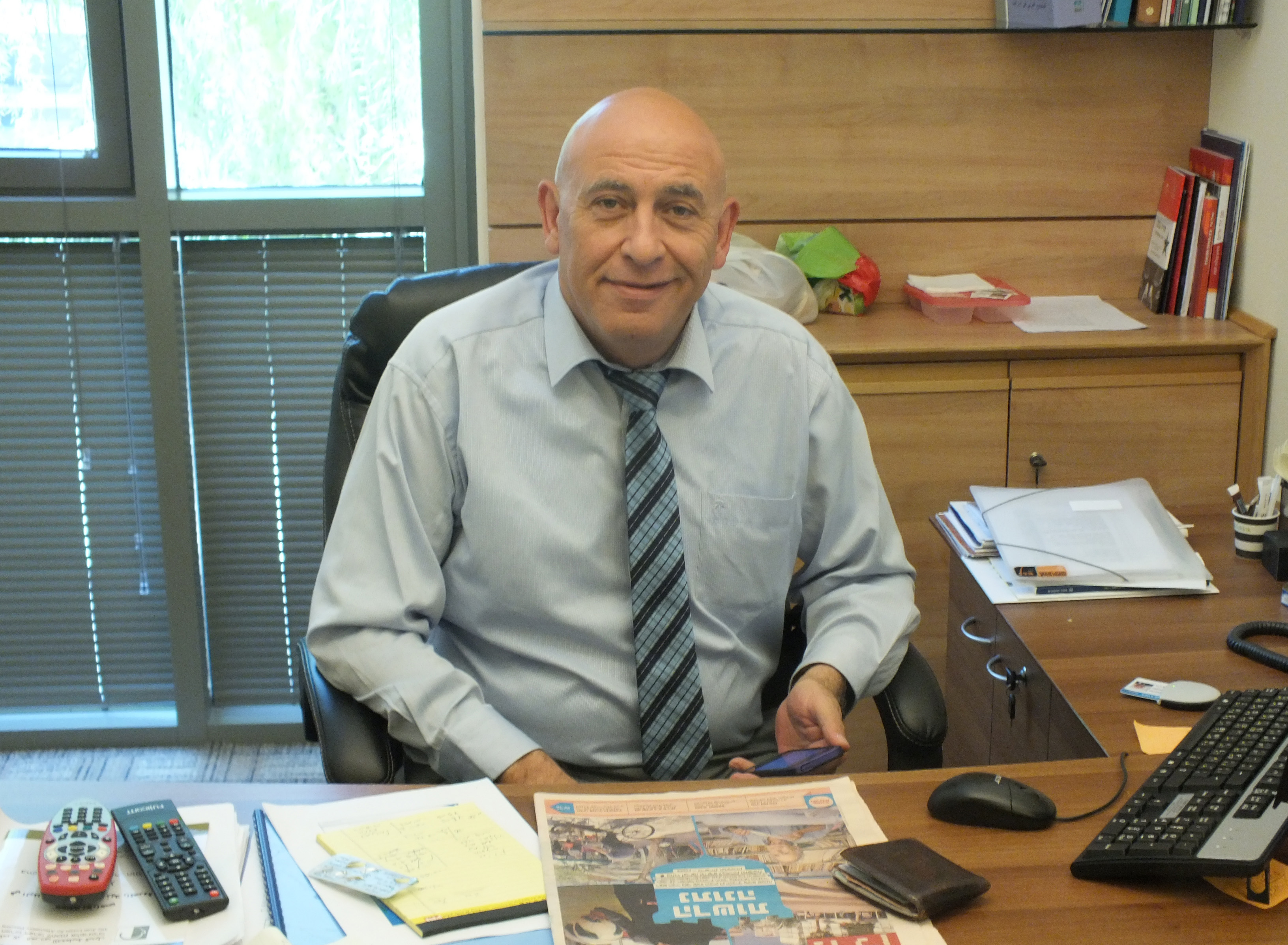 Basel Ghattas MK.